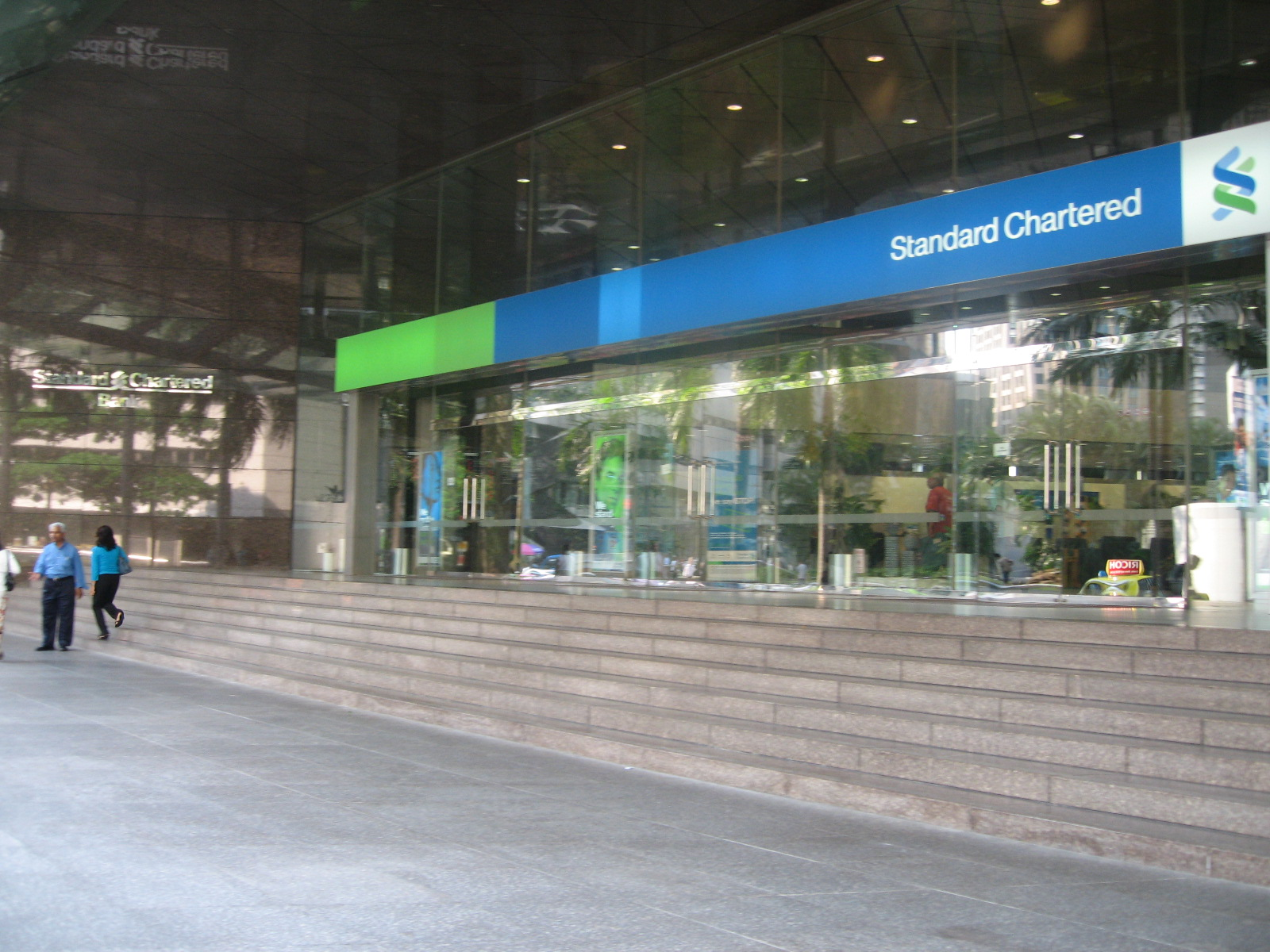 Standard Chartered Bank, Singapore Main Branch. Taken by Terence Ong in March 2006.